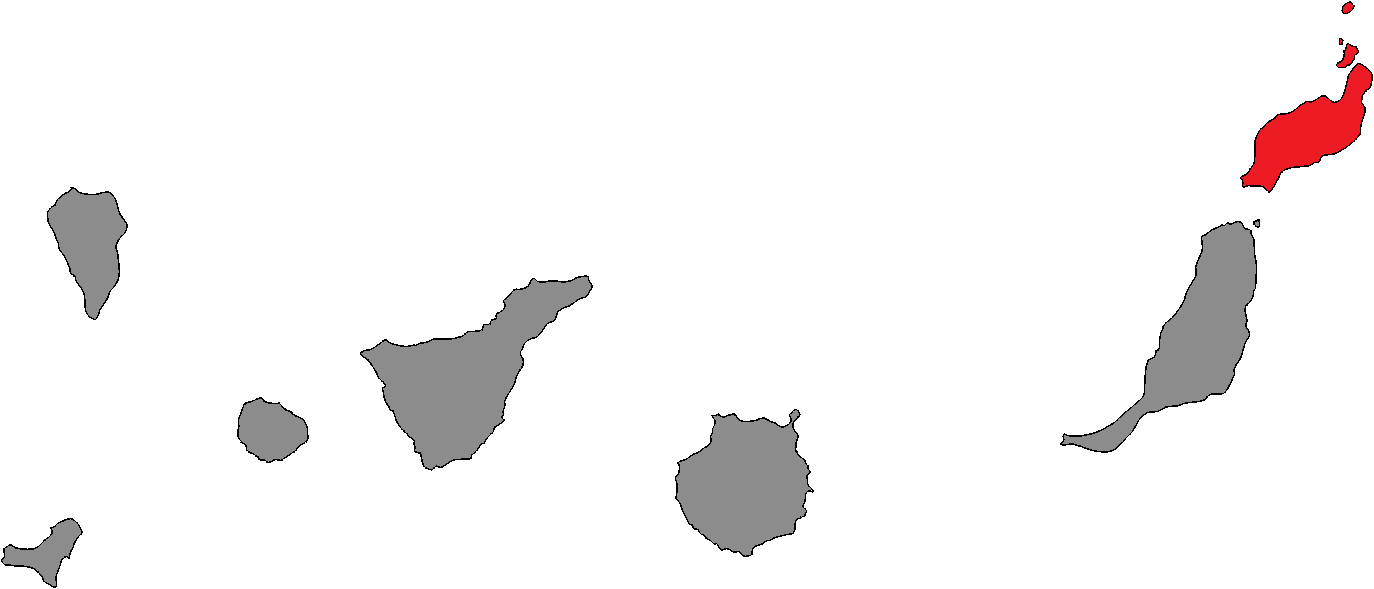 Canarian Parliament district of Lanzarote.